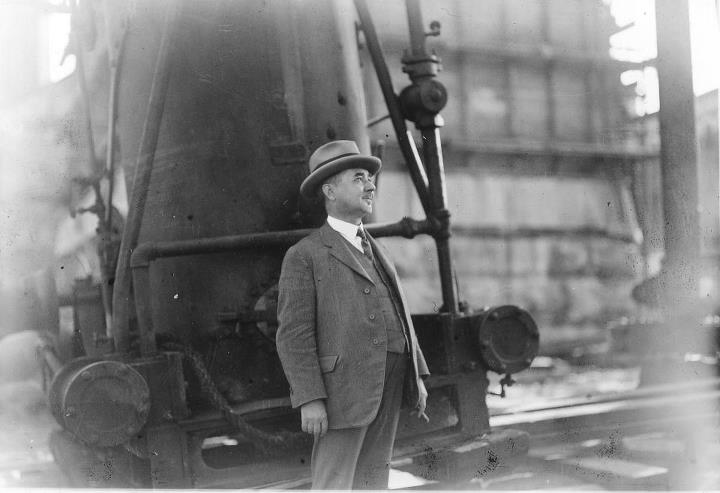 Oscar Dufresne between 1925 and 1930, on the construction site of the Jacques Cartier Bridge in Montreal, an important contract for his brother Marius.